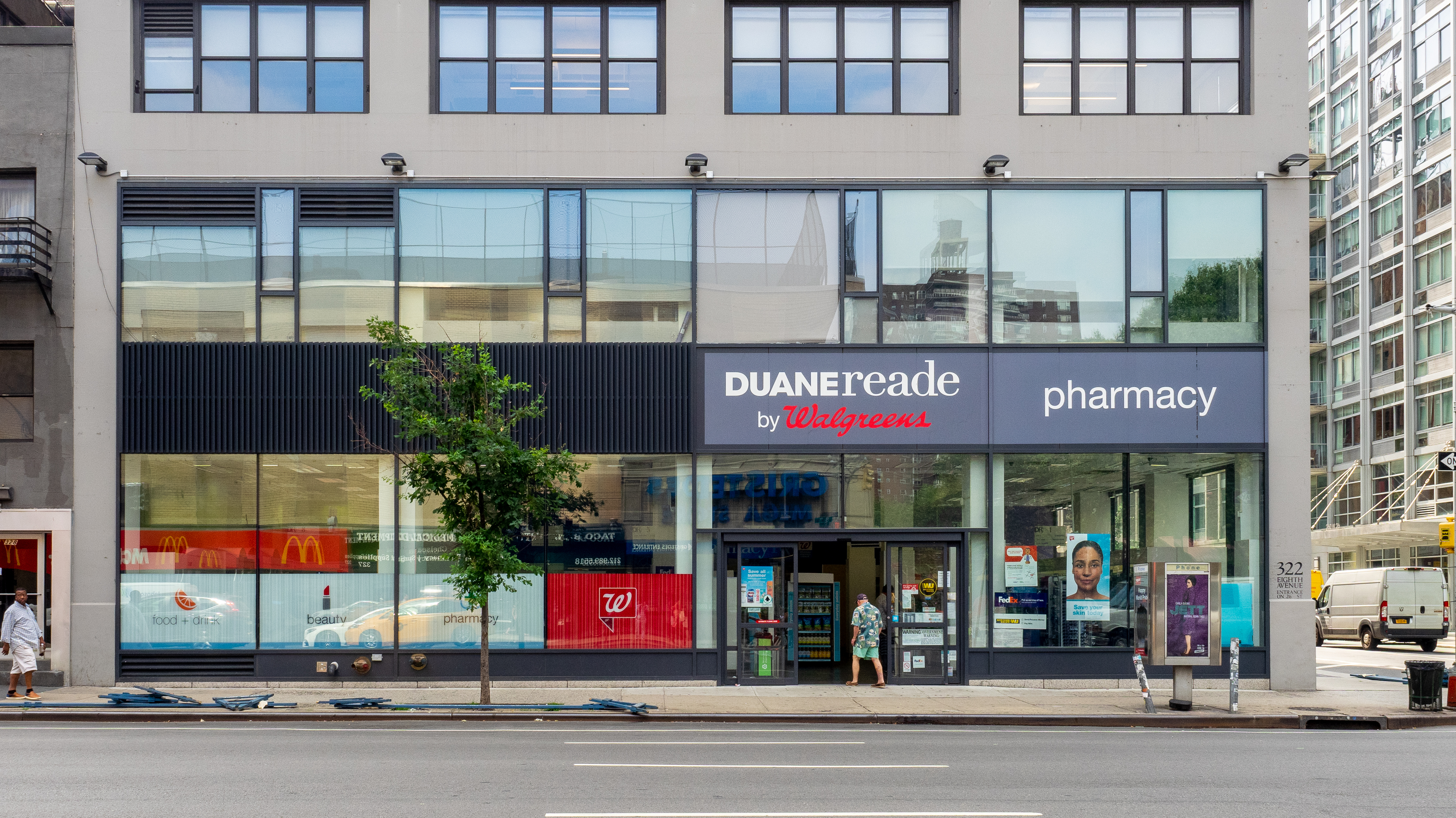 Chelsea, NYC